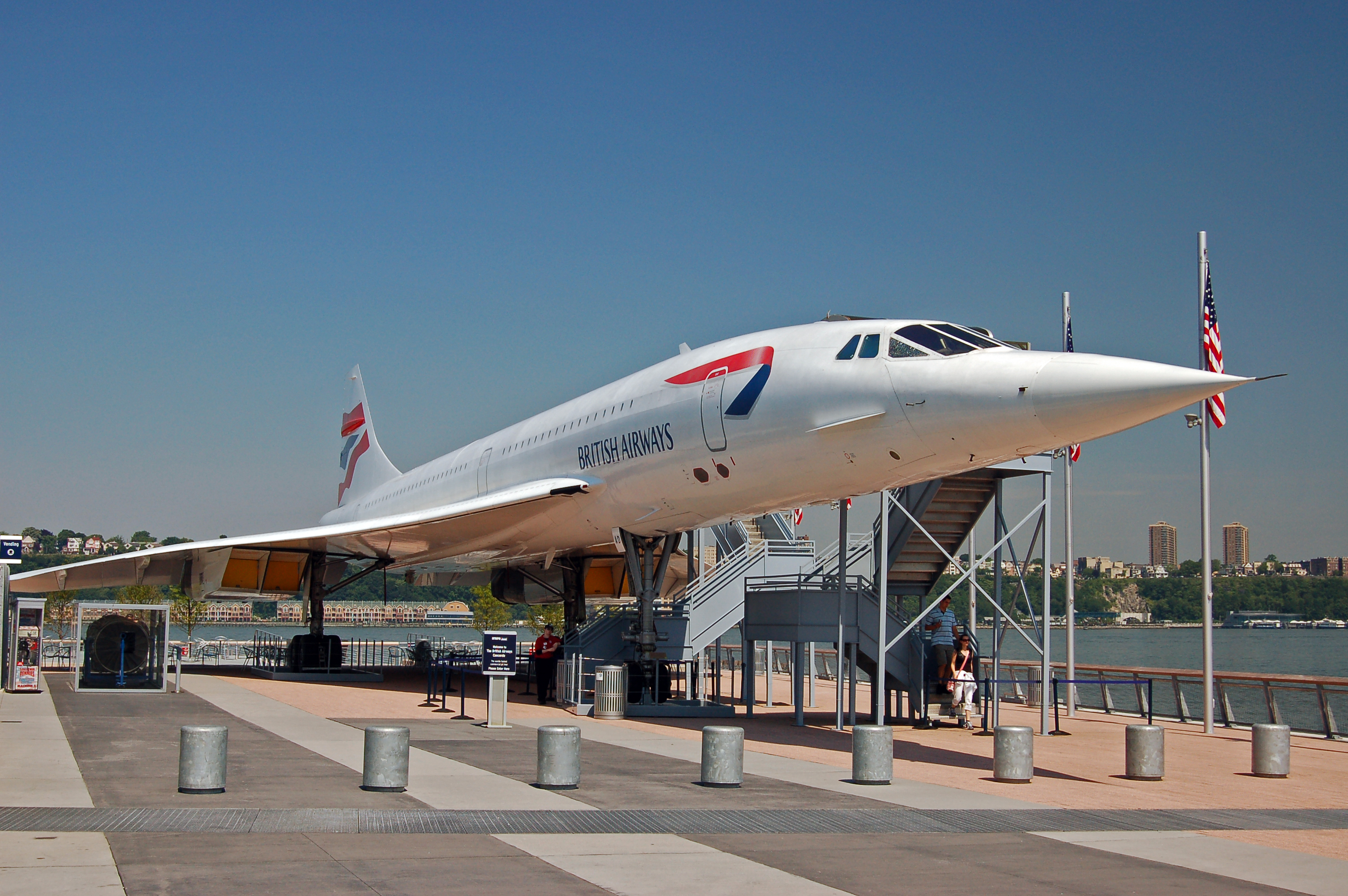 The final flight of British Airways G-BOAD was November 10th 2003 from London Heathrow to New York JFK